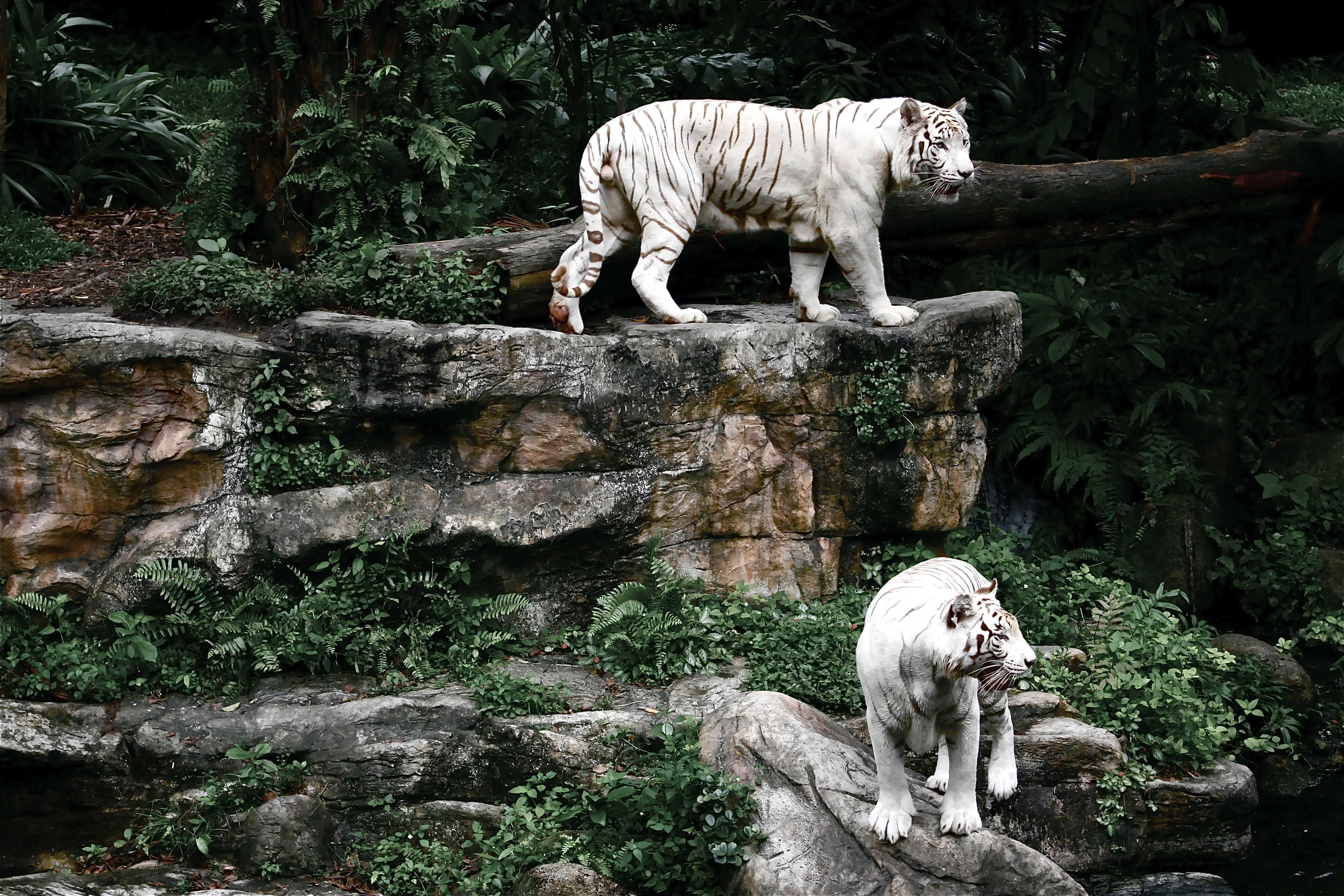 A picture of the endangered 2 white tigers in captivity at the Zoological Park in Singapore.